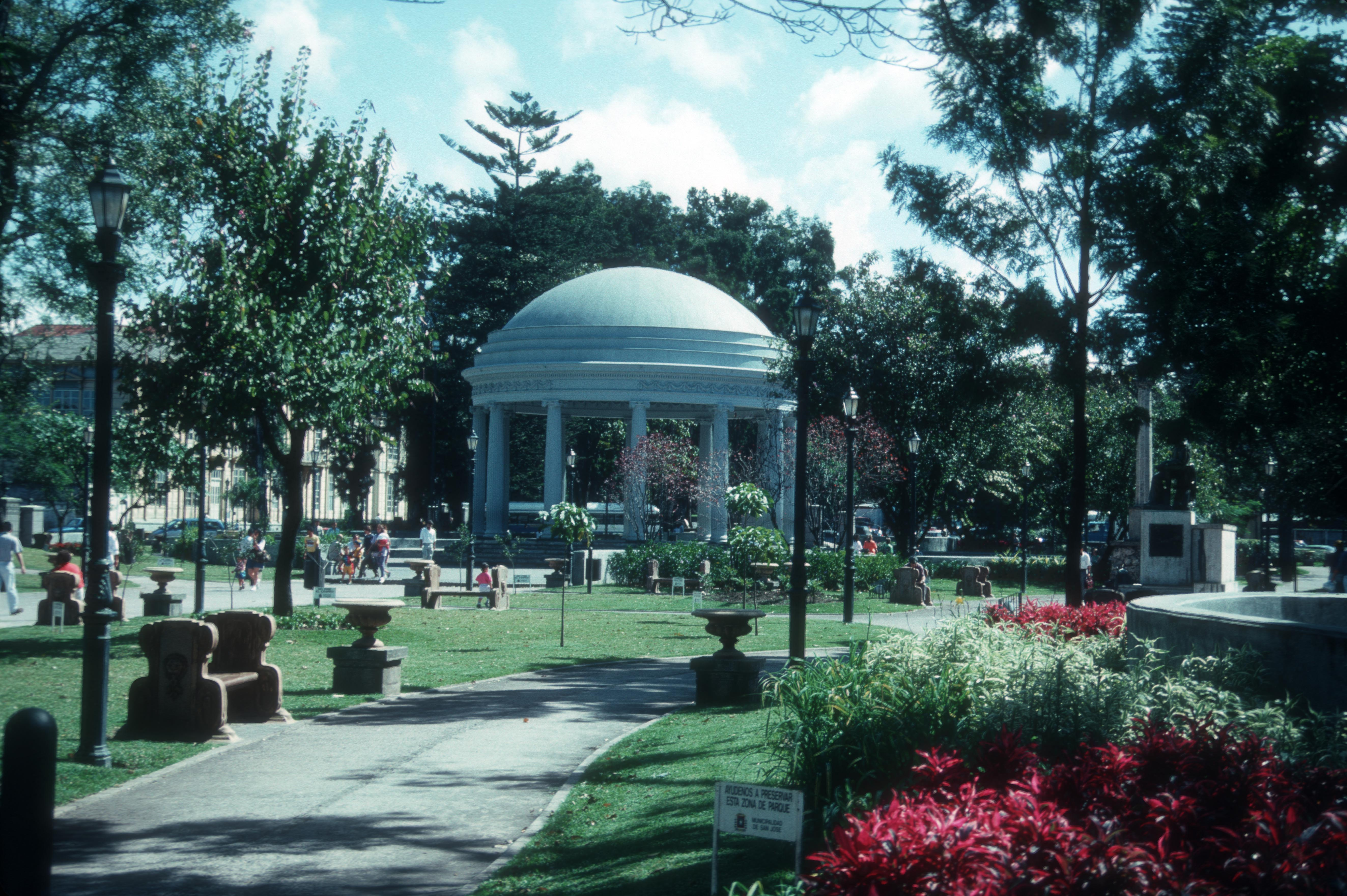 Plaza Morzan — city park with Neoclassical pavilion, in San José, Costa Rica. "MORAZAN was born in Honduras, and was the first president in CENTRAL AMERICA." "He united CENTRAL AMERICA in different periods of time 1827 to 1842, during the turbulent times after the region's INDEPENDENCE from SPAIN."